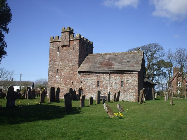 Parish church of St John the Evangelist, Newton Arlosh, Cumbria, seen from the south